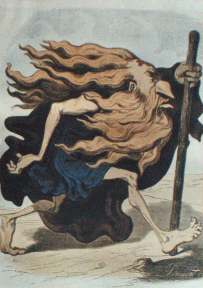 The Wandering Eternal Jew. Coloured wood-engraving by S.C. Dumont, 1852 (based on Gustave Doré). Nazi propaganda poster at Yad Vashem.